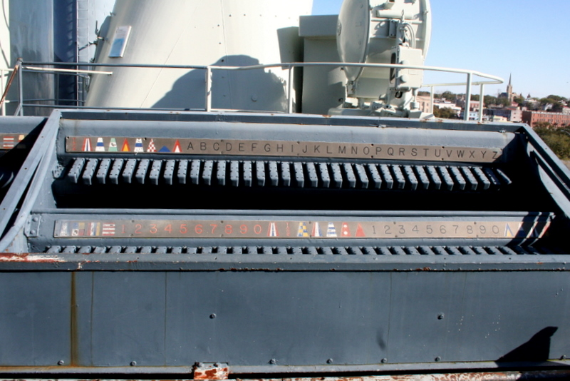 Signal flag rack aboard the USS North Carolina (BB-55)